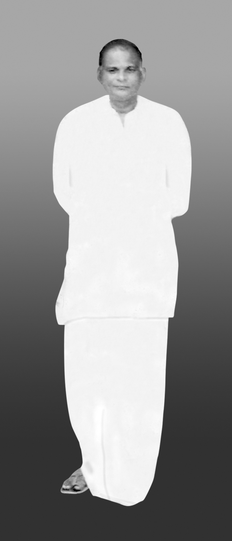 Photo of Rationalist from Andhra Pradesh - Guttikonda Narahari